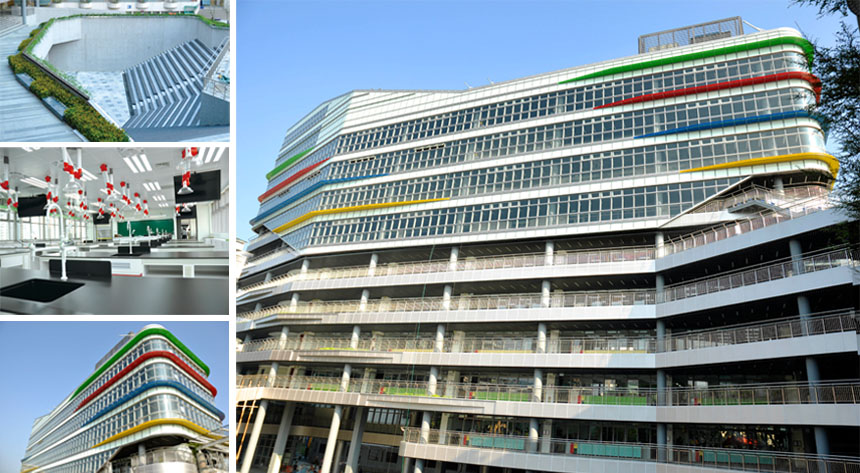 Science Building of NSSH